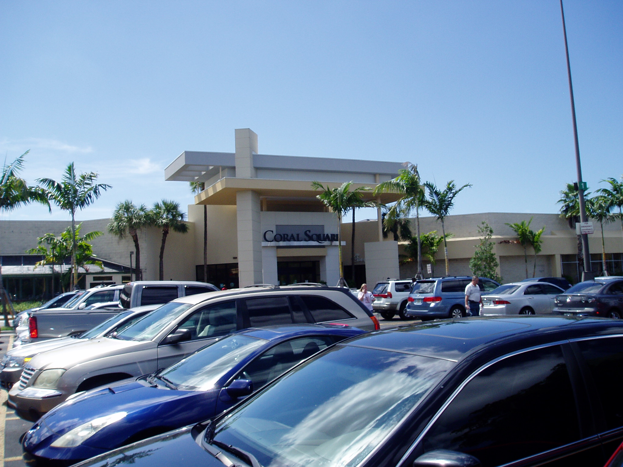 The main entrance into Coral Square in Coral Springs, Florida.